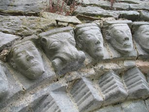 Photo by William Bennett